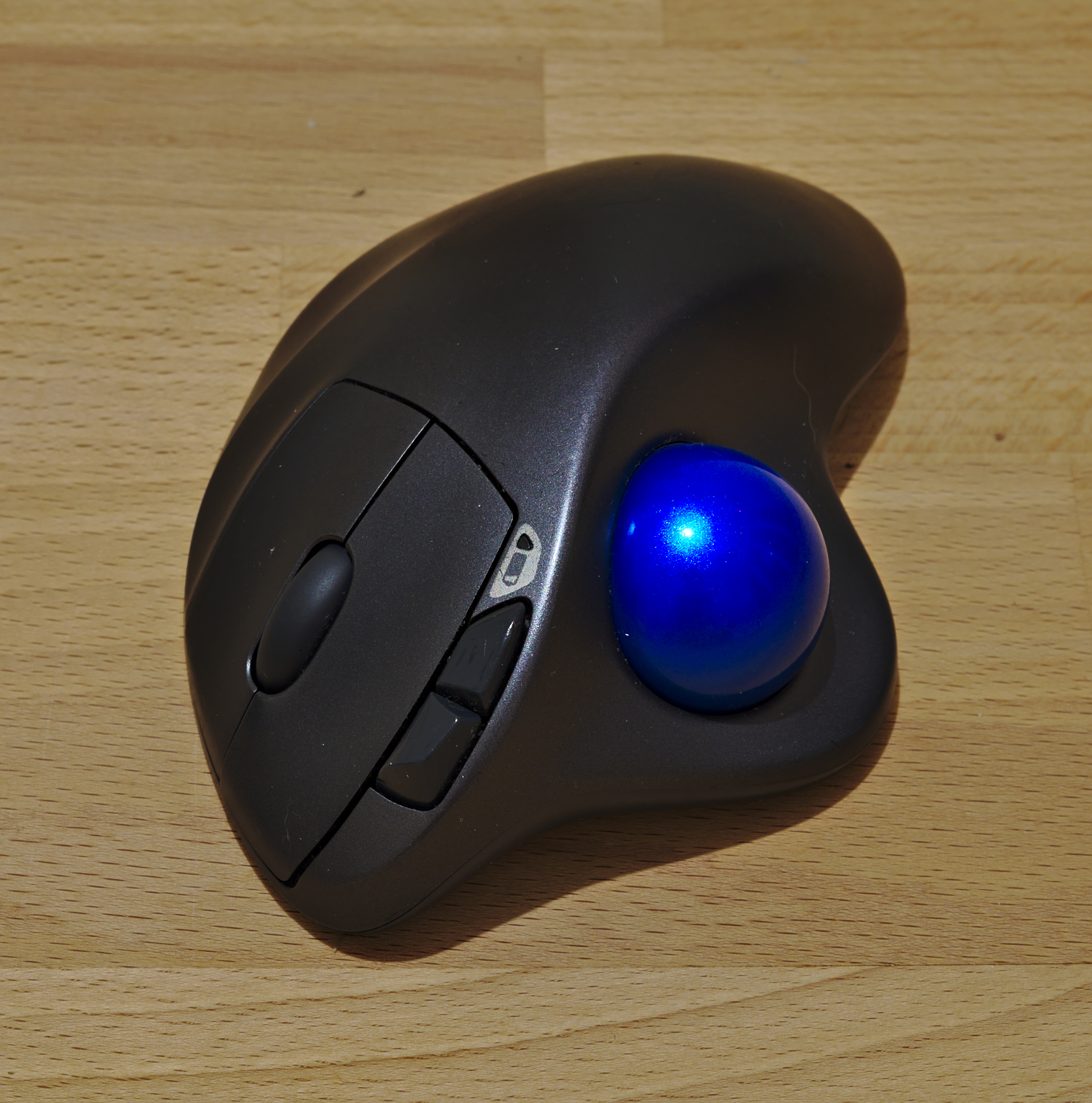 Logitech M570 trackball (DSCF2656)